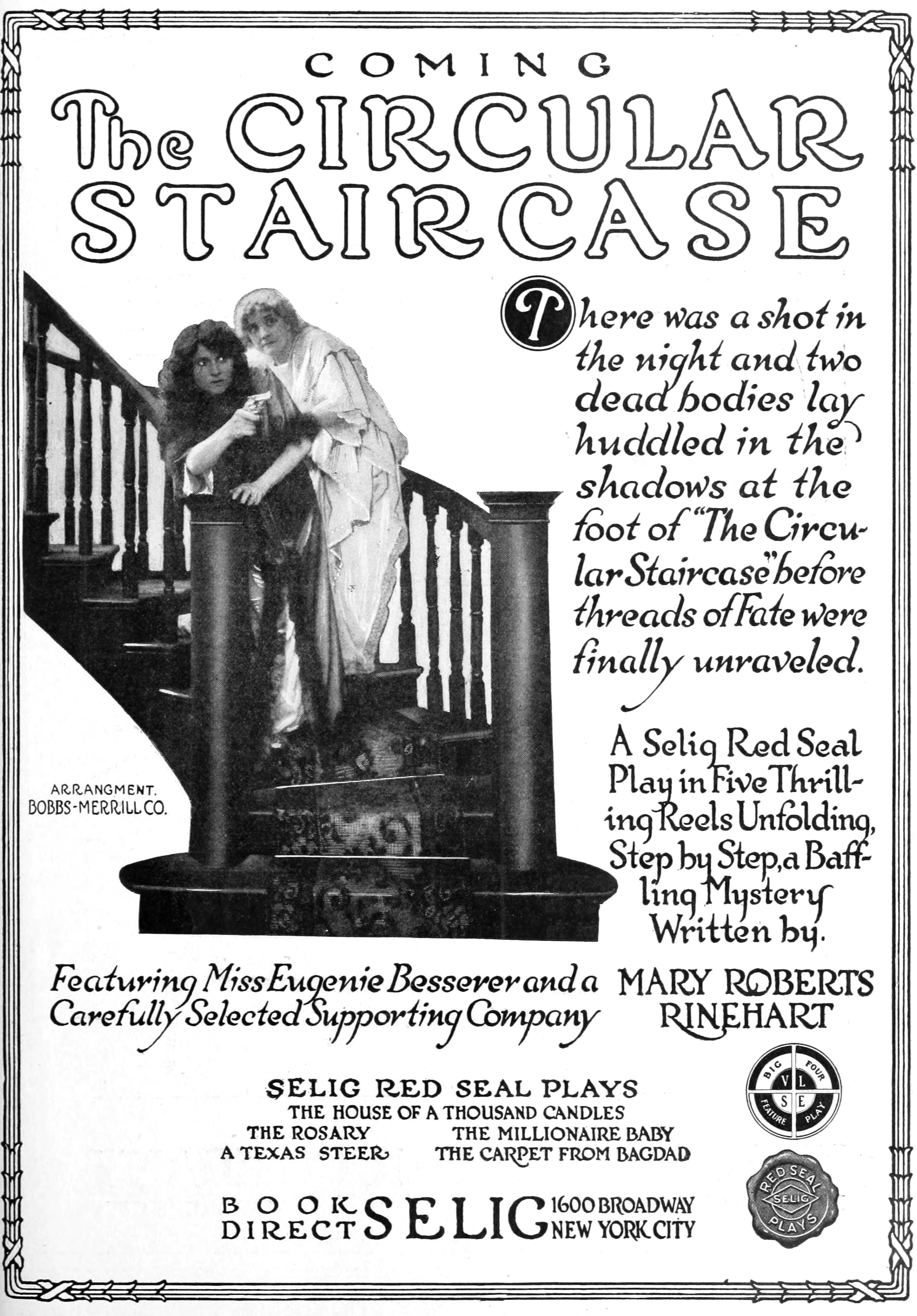 Advertisement for film version of Mary Roberts Rinehart’s novel The Circular Staircase, 1915